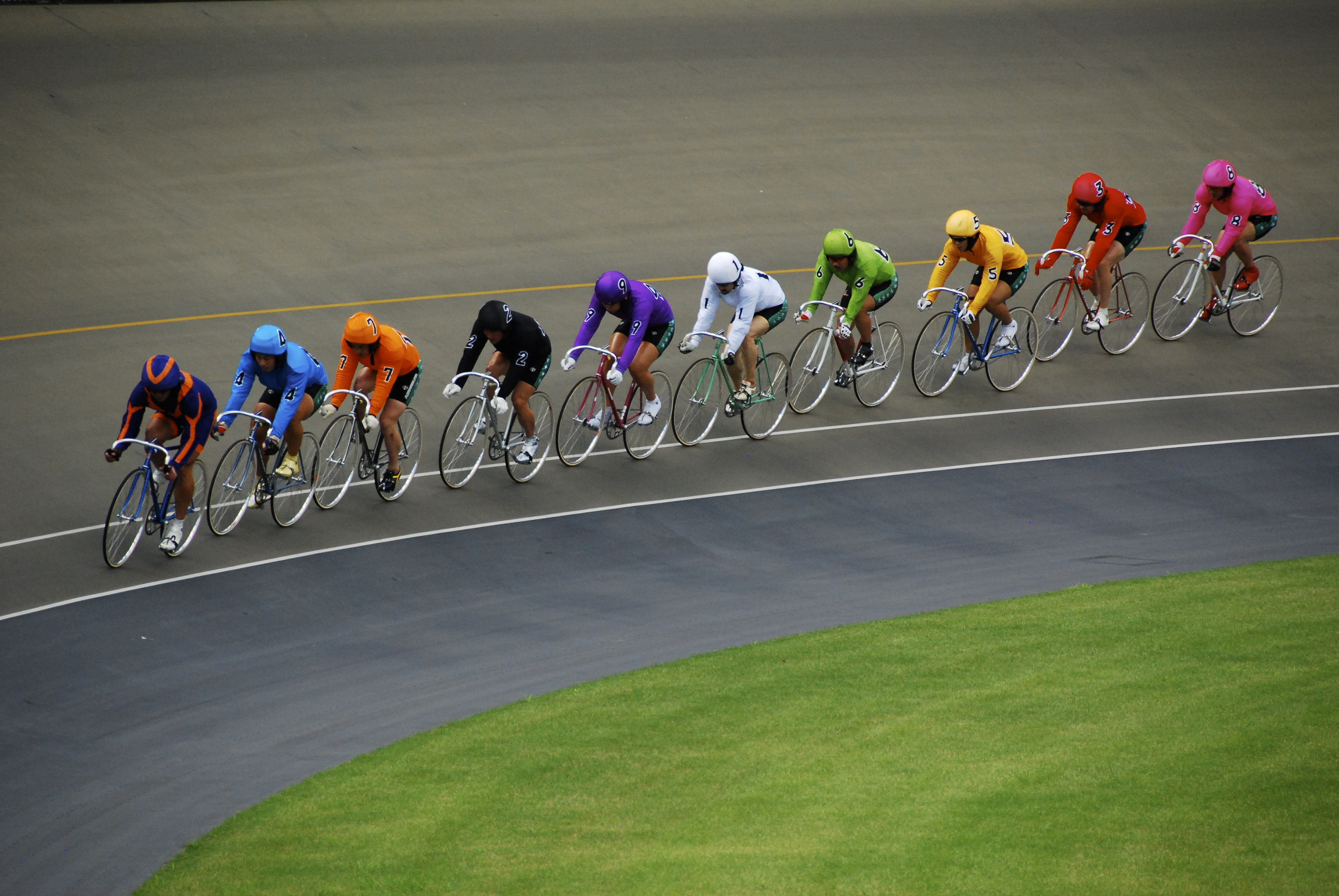 racers during the first lap of a keirin race on the omiya velodrome in the tokyo metropolitan area